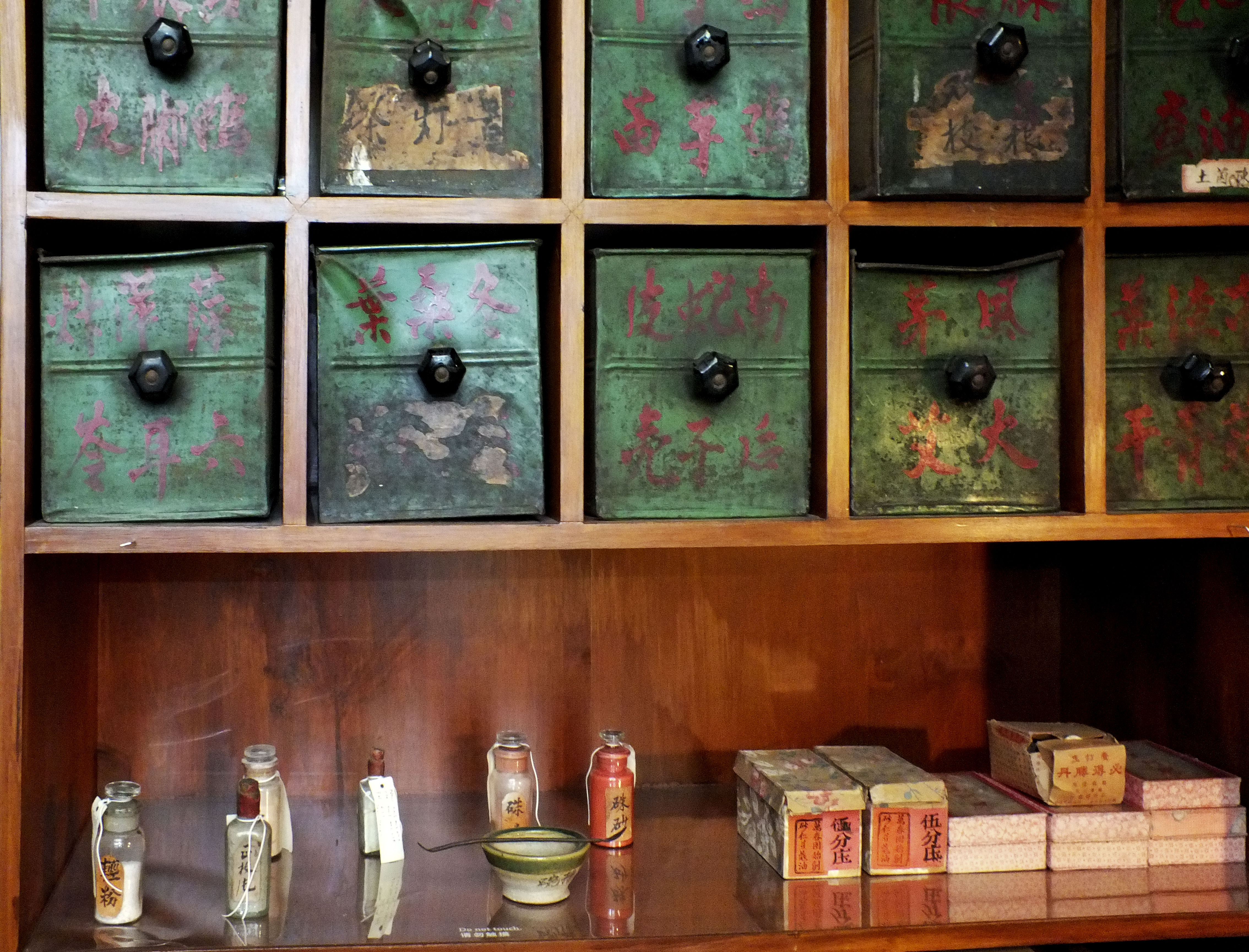 Museum of Chinese in America Site: Museum of Chinese in America